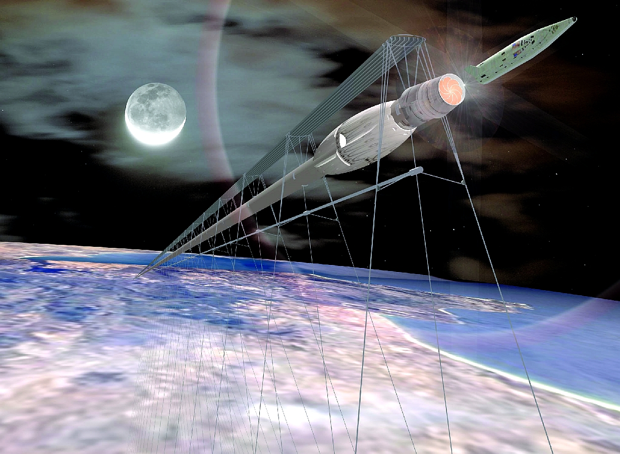 StarTram Generation 2 launching a spacecraft, a megastructure with an elevated launch tube 22 kilometers above sea level (a bit less above local terrain), a more ambitious proposal than the surface-based Gen-1 and Gen-1.5 versions.